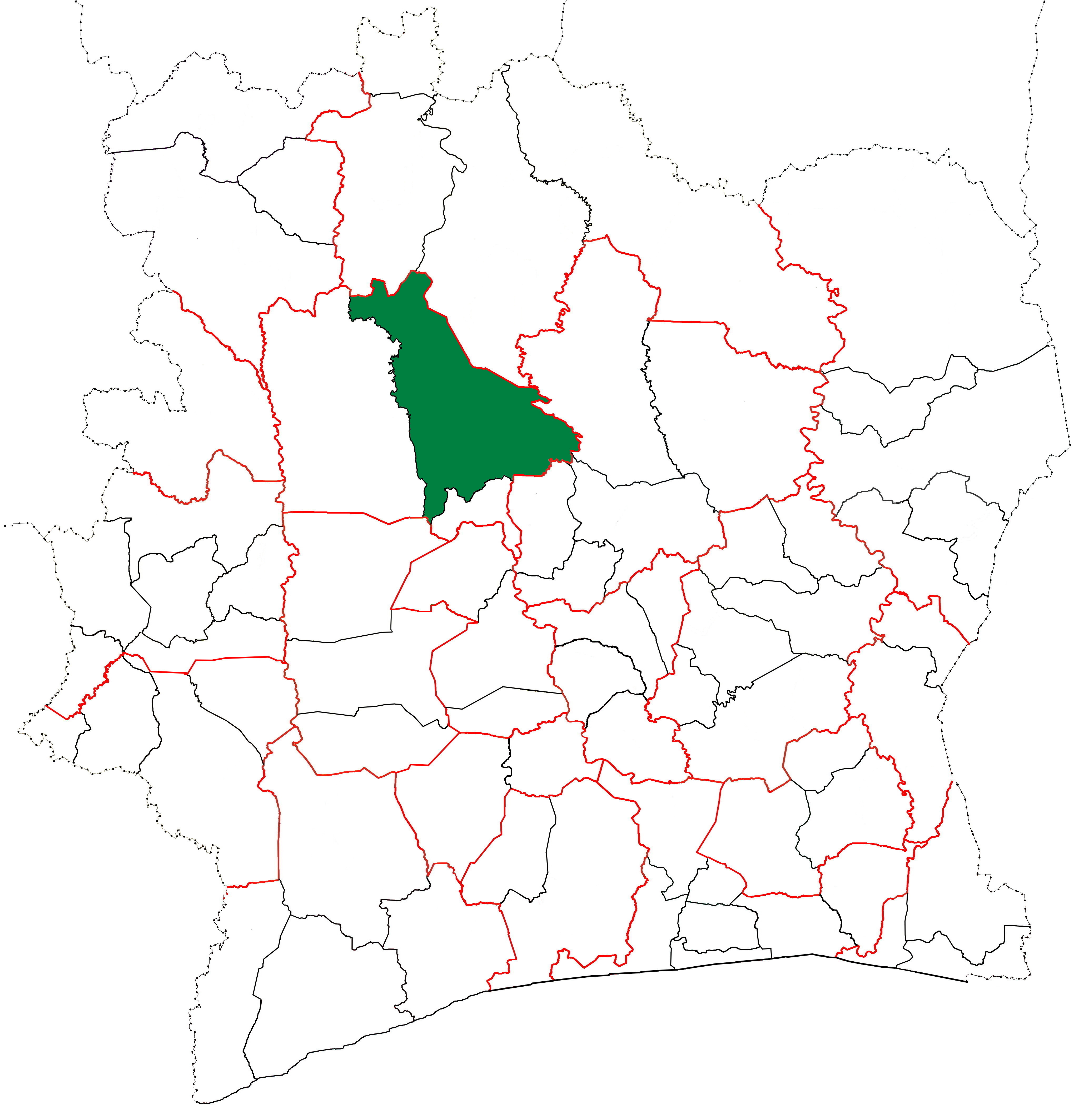 Locator map for Mankono Department in Côte d'Ivoire in 2005. Mankono Department kept these boundaries until 2012, but other subdivision boundaries began to be changed in 2008.